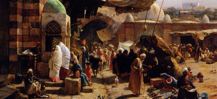 Cropped version of the painting Market at Jaffa by Gustav Bauernfeind